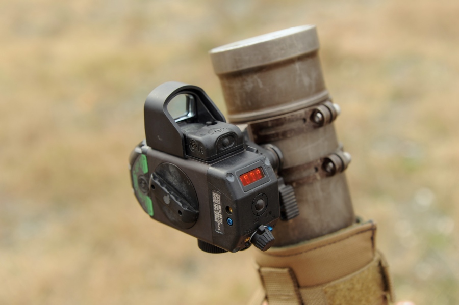 The Office of Naval Research's new Fire Control Unit 60 mm Mortar sight uses a red dot for aiming during the day and has laser capabilities for improved night fire accuracy, according to Navy officials. Testing of the sight has been so successful thus far, six have been requested and are on their way to Marine units in Afghanistan. The 60 mm Mortar has been a Marine Corps staple since World War II when they were integral to victory in the Pacific.